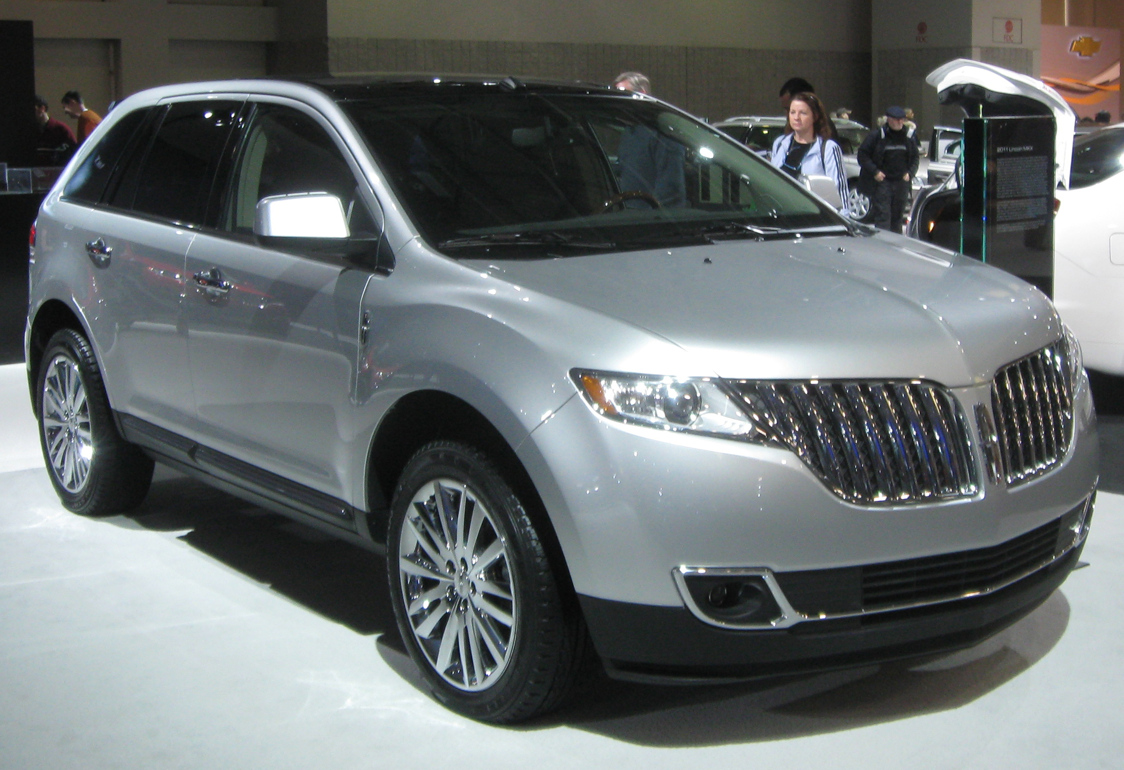 2011 Lincoln MKX photographed at the 2010 Washington Auto Show.